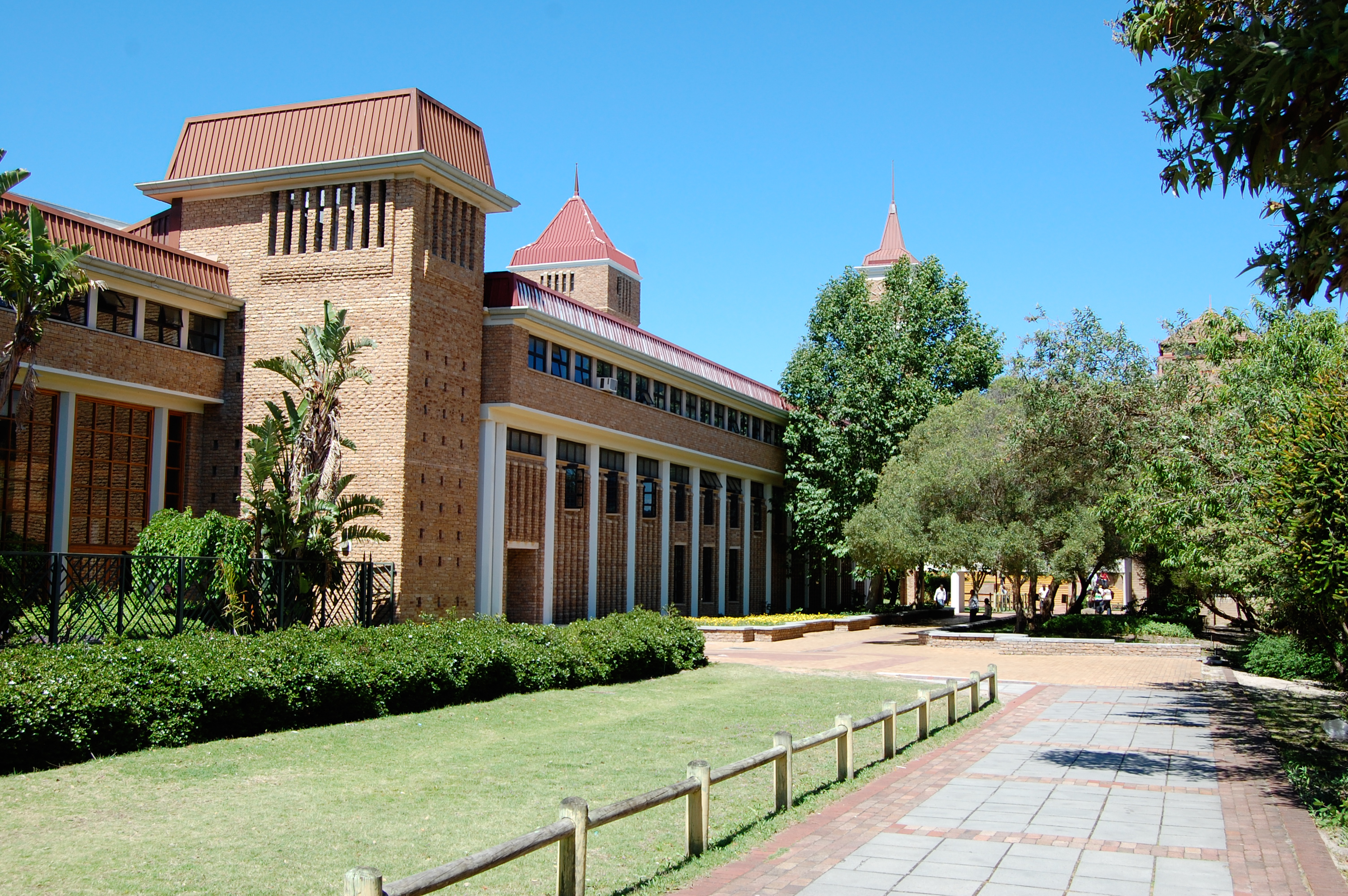 University of the Western Cape campus. Great Hall to the left.